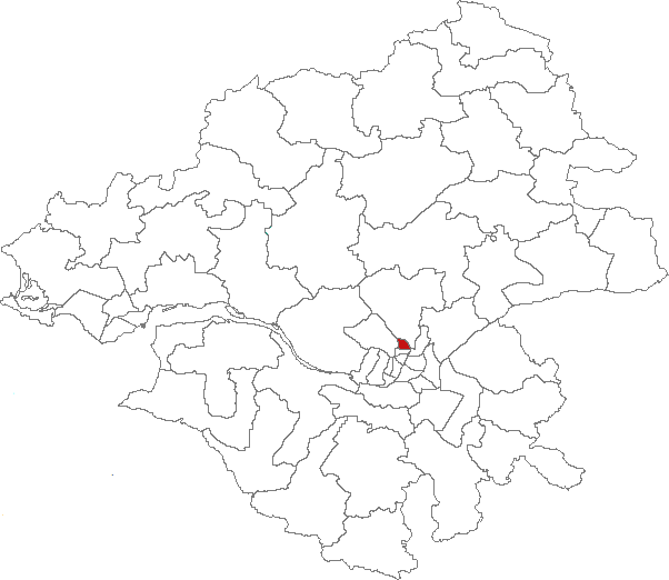 Map of canton of France : Canton de Nantes-7, Loire-Atlantique, France